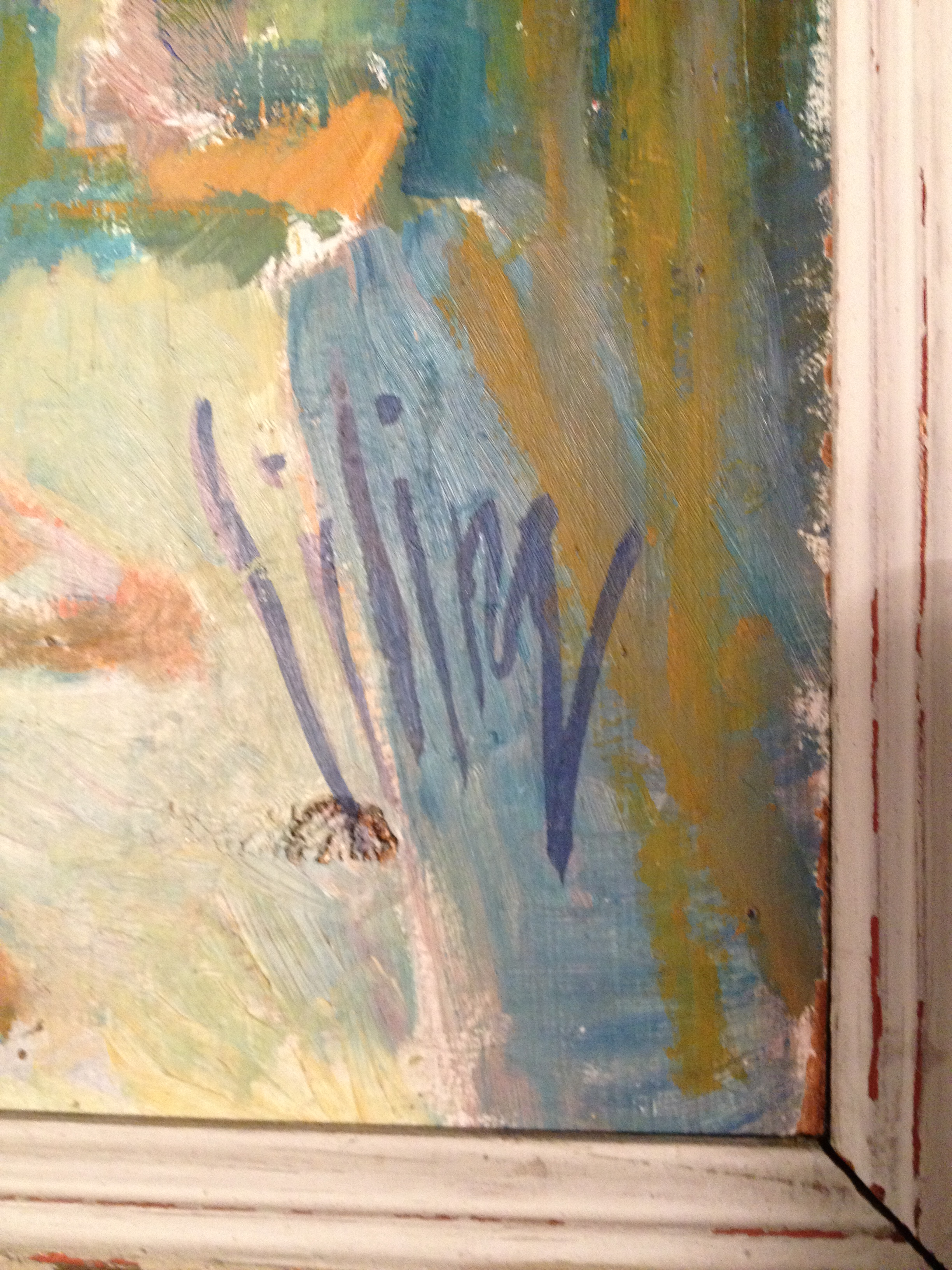 Dorerin Naoero: Signature of artist painter Liling Nyström.